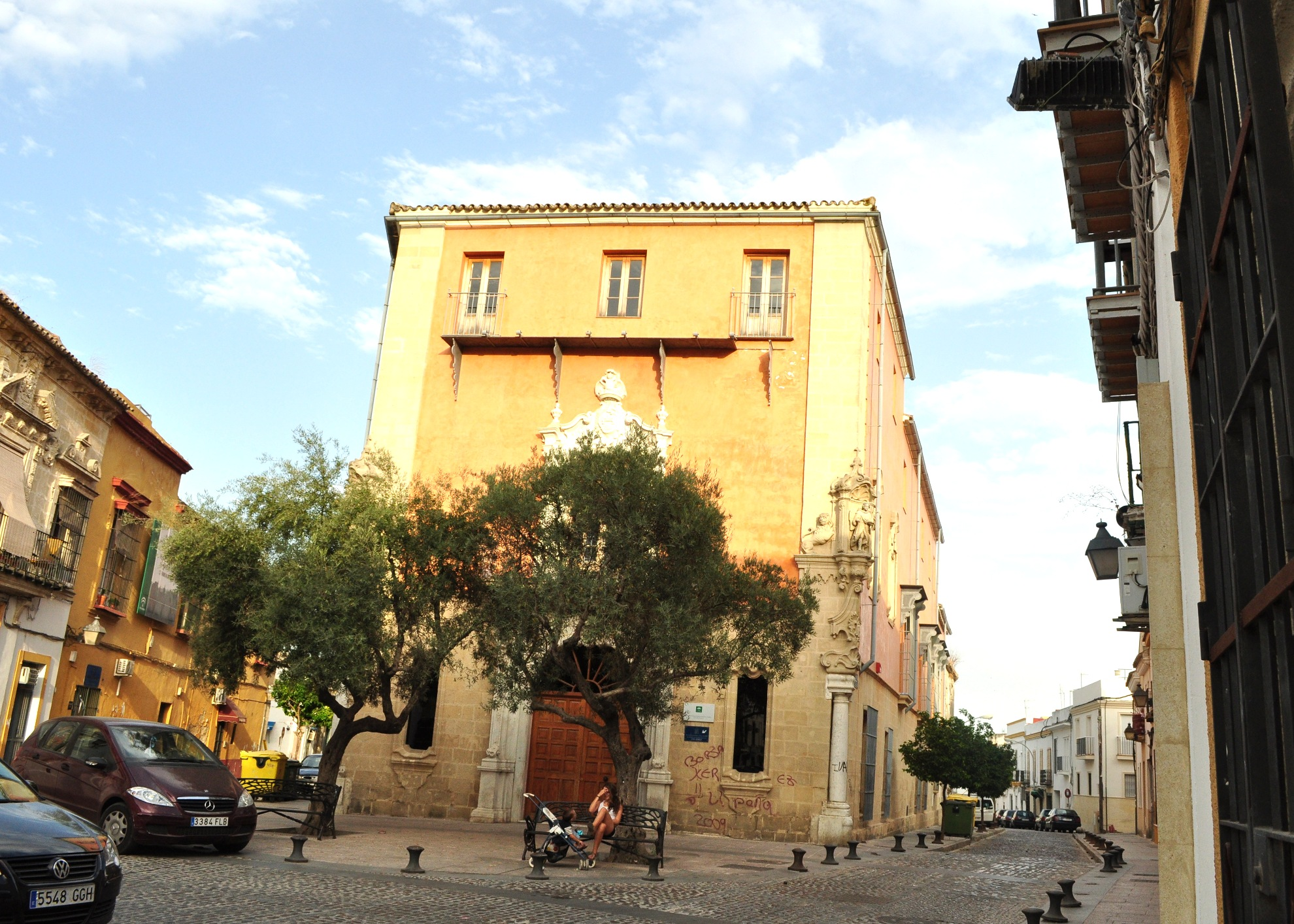 Villapanes Palace Façade